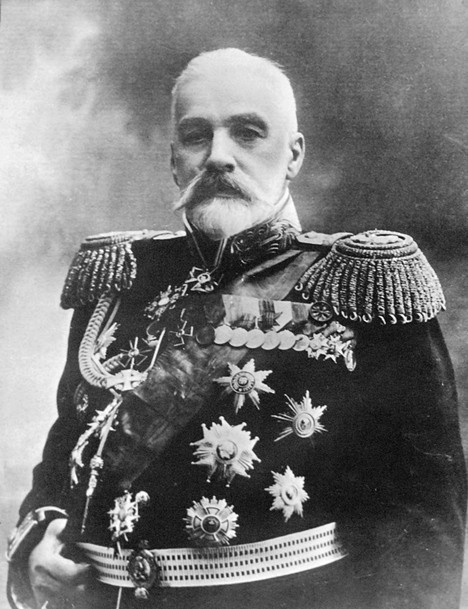 Ivan Grigorovich (1853-1930)